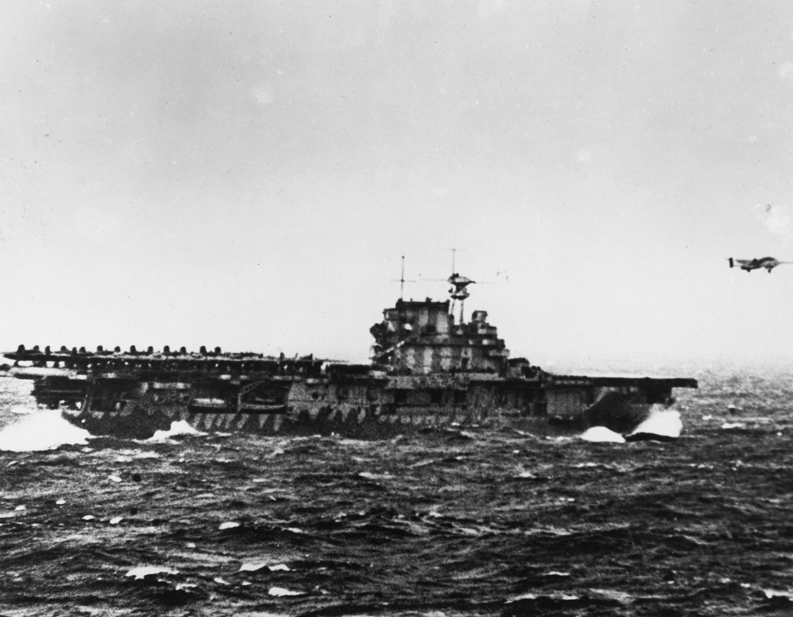 The U.S. Navy aircraft carrier USS Hornet (CV-8) launches a U.S. Army Air Forces North American B-25B Mitchell during the Doolittle Raid, 18 April 1942.